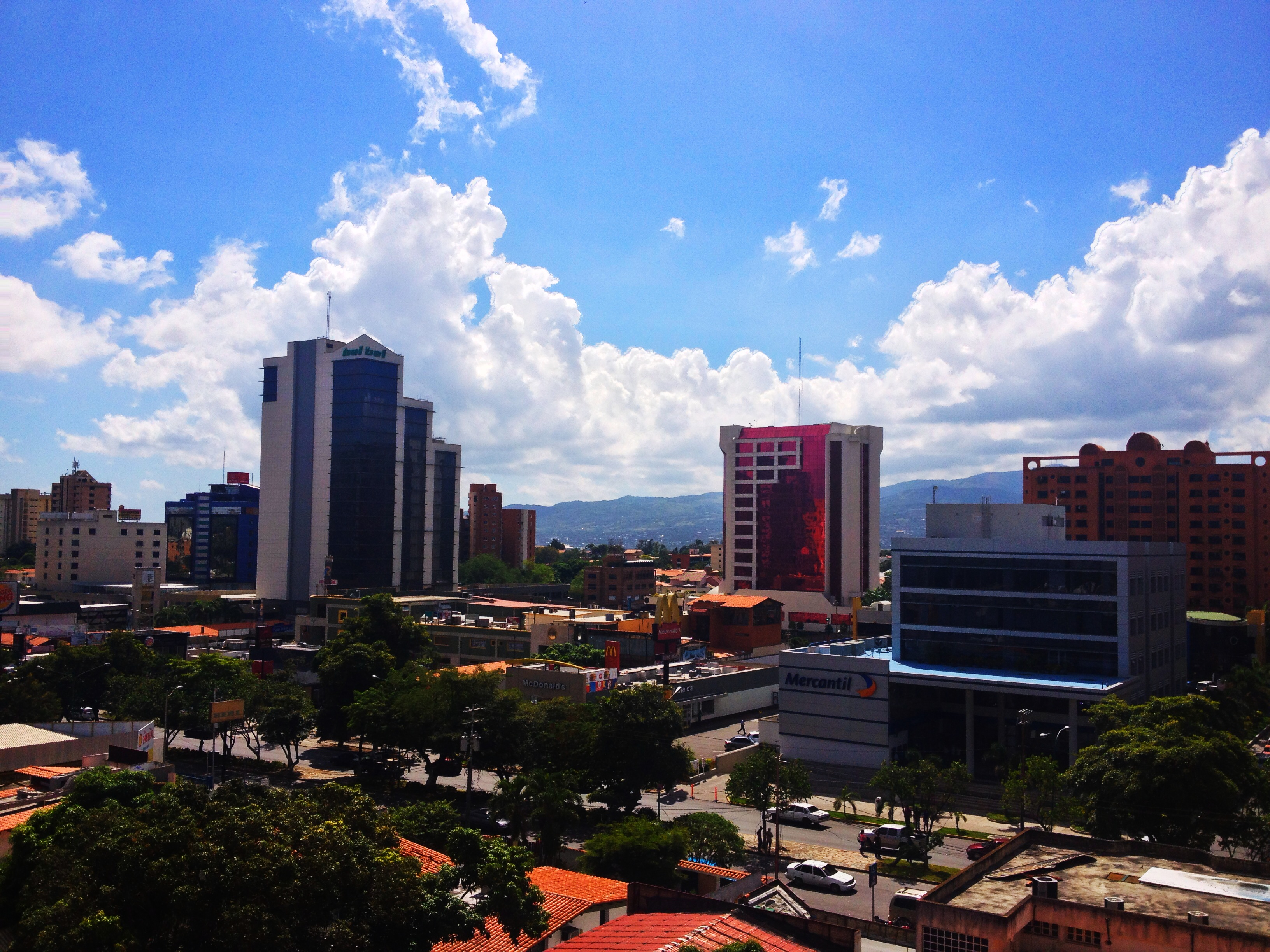 Barquisimeto the music capital of Venezuela